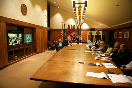 Vice President Dick Cheney is seated with Secretary of State Condoleezza Rice and Secretary of Defense Donald Rumsfeld as they participate in a video teleconference from Camp David, Md., Tuesday, June 13, 2006 with President Bush and Iraqi Prime Minister Nouri al-Maliki in Baghdad .